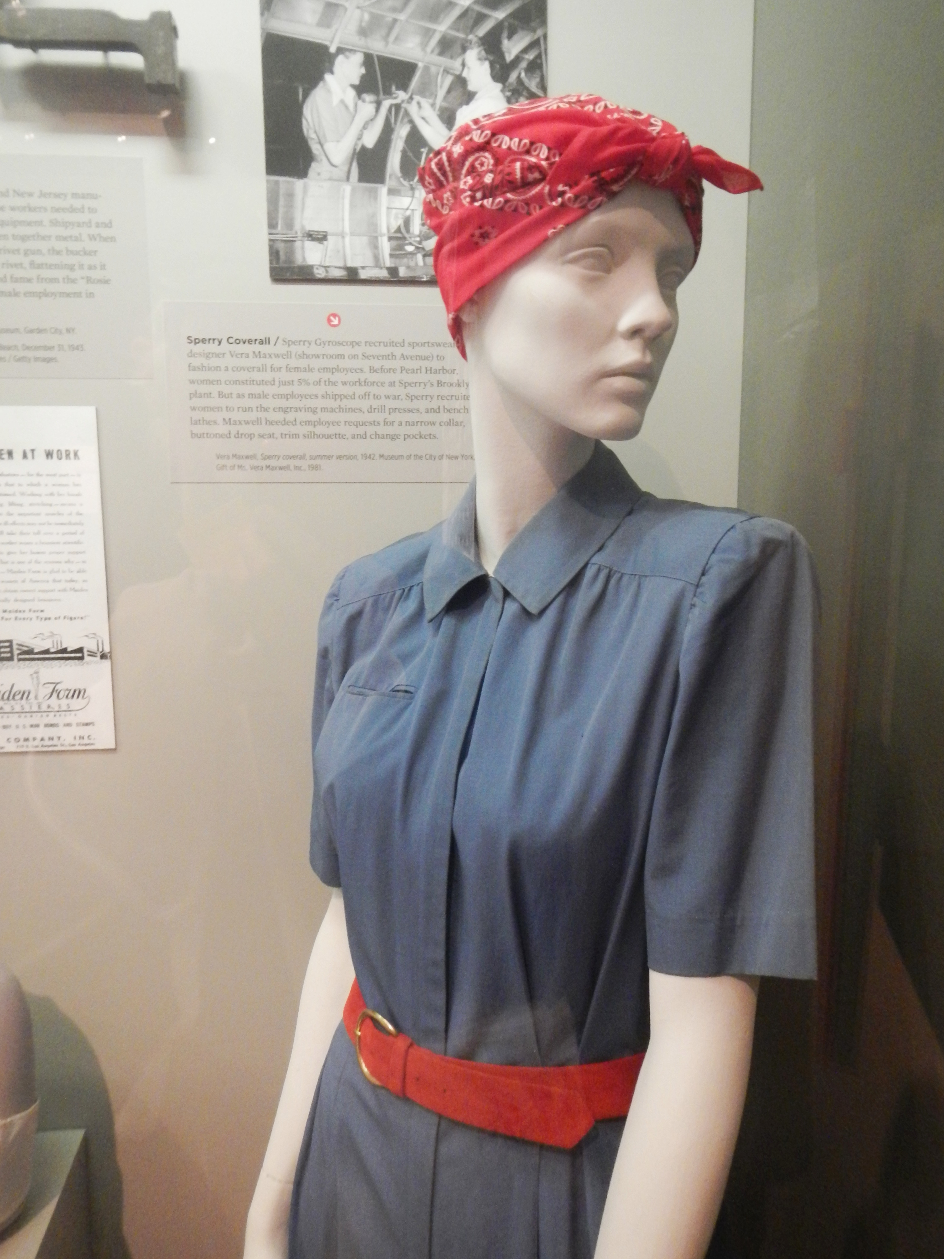 Sperry coverall, designed by Vera Maxwell for workers at Sperry Gyroscope.